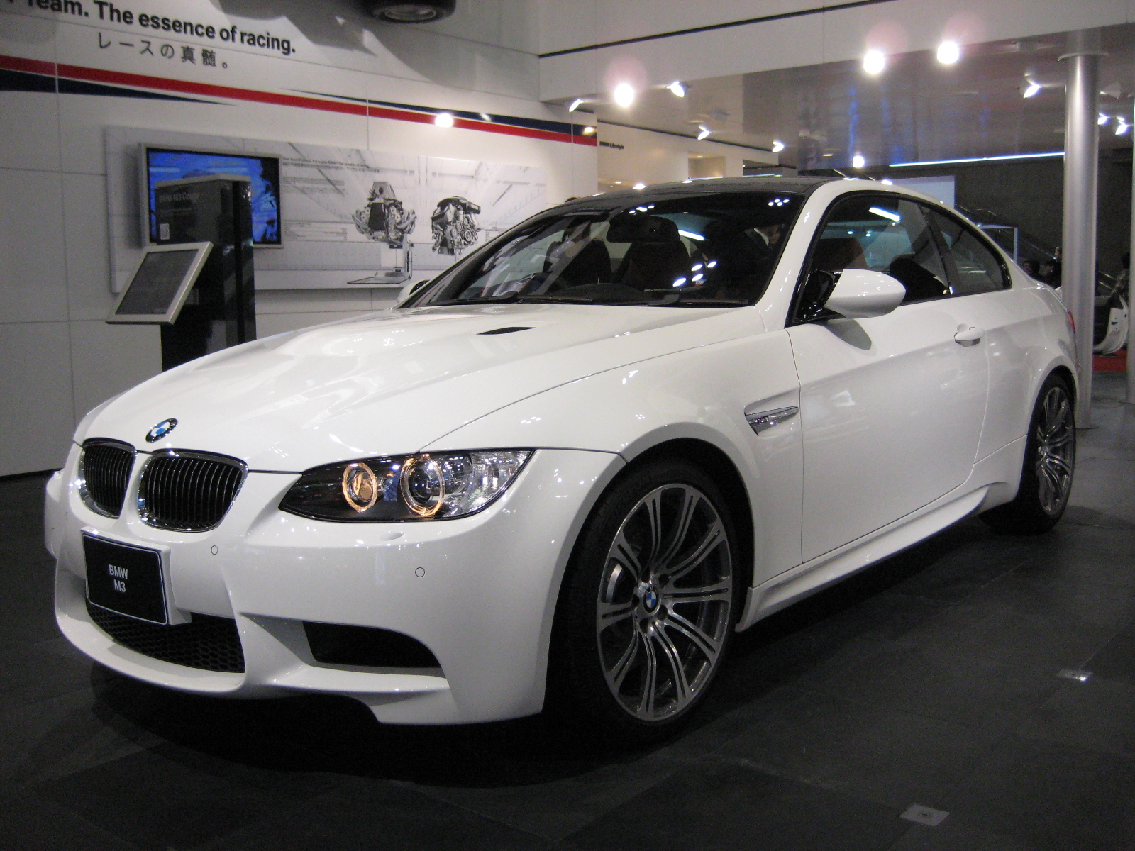 BMW E92 M3 Coupé in Tokyo Motor Show 2007